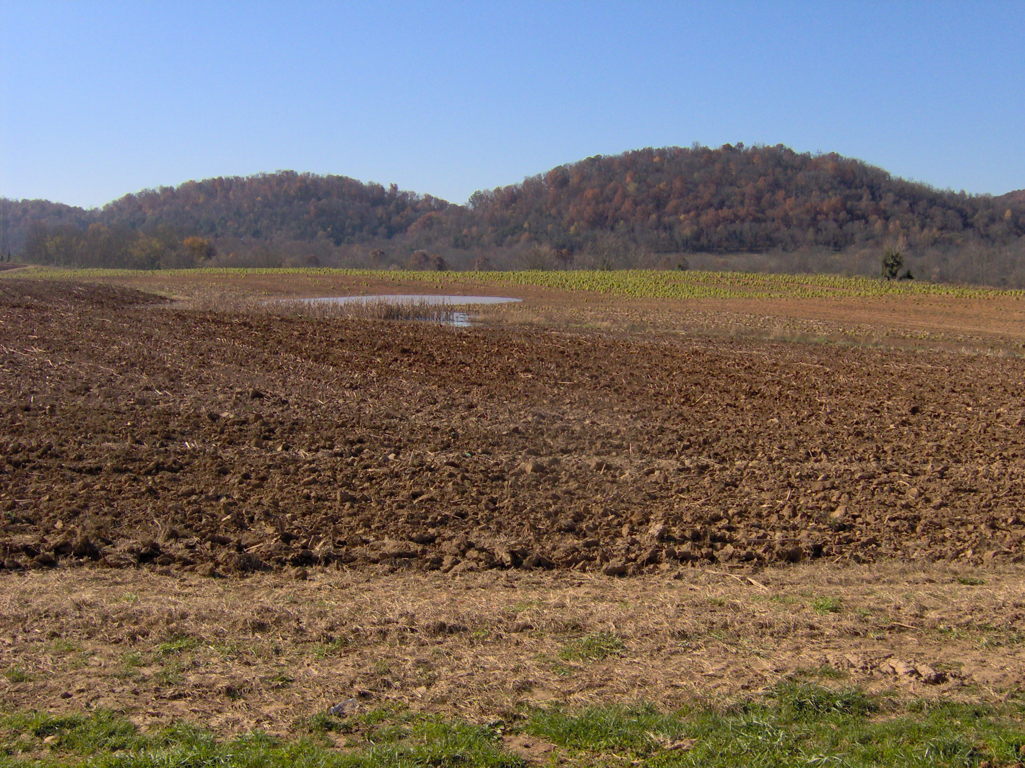 Plowed tobacco fields at the Earnest Farms Historic District in Greene County, Tennessee, USA. The Nolichucky River runs horizontally across the picture, providing the boundary between the hills in the background and the flatlands in the foreground.